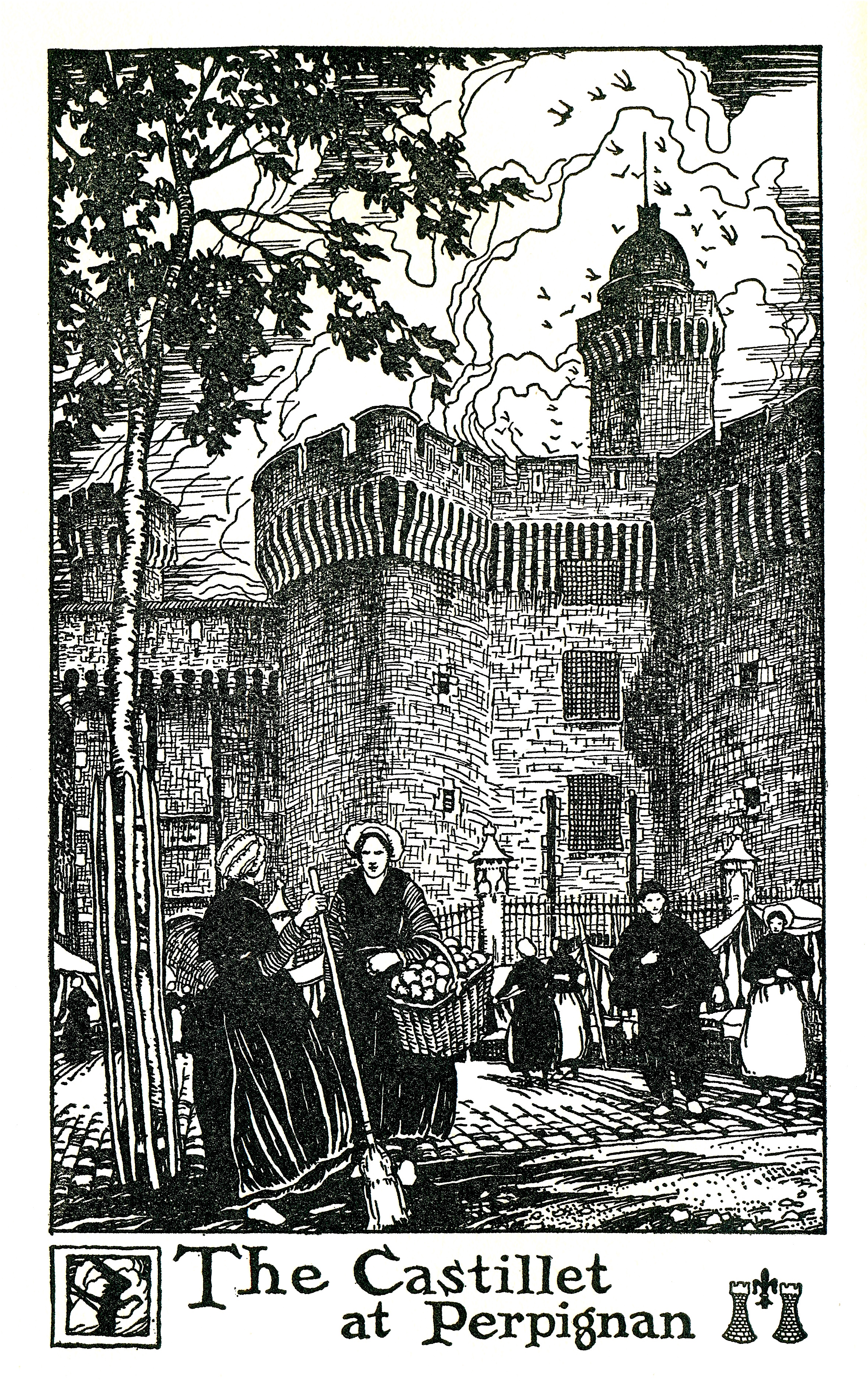 Pen and ink drawing by Thornton Oakley, appearing on page 2 of Hill Towns of the Pyrenees by Amy Oakley, published in 1923